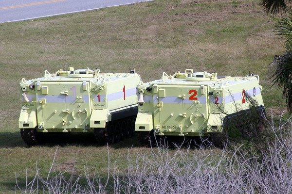 M113 armored personnel carrier at Kennedy Space Center Launch Complex 39, for use by astronauts if they bail out of a Space Shuttle during launch.